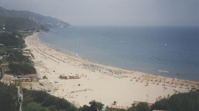 The Beach in Sperlonga (Latina, Latium, Italy)